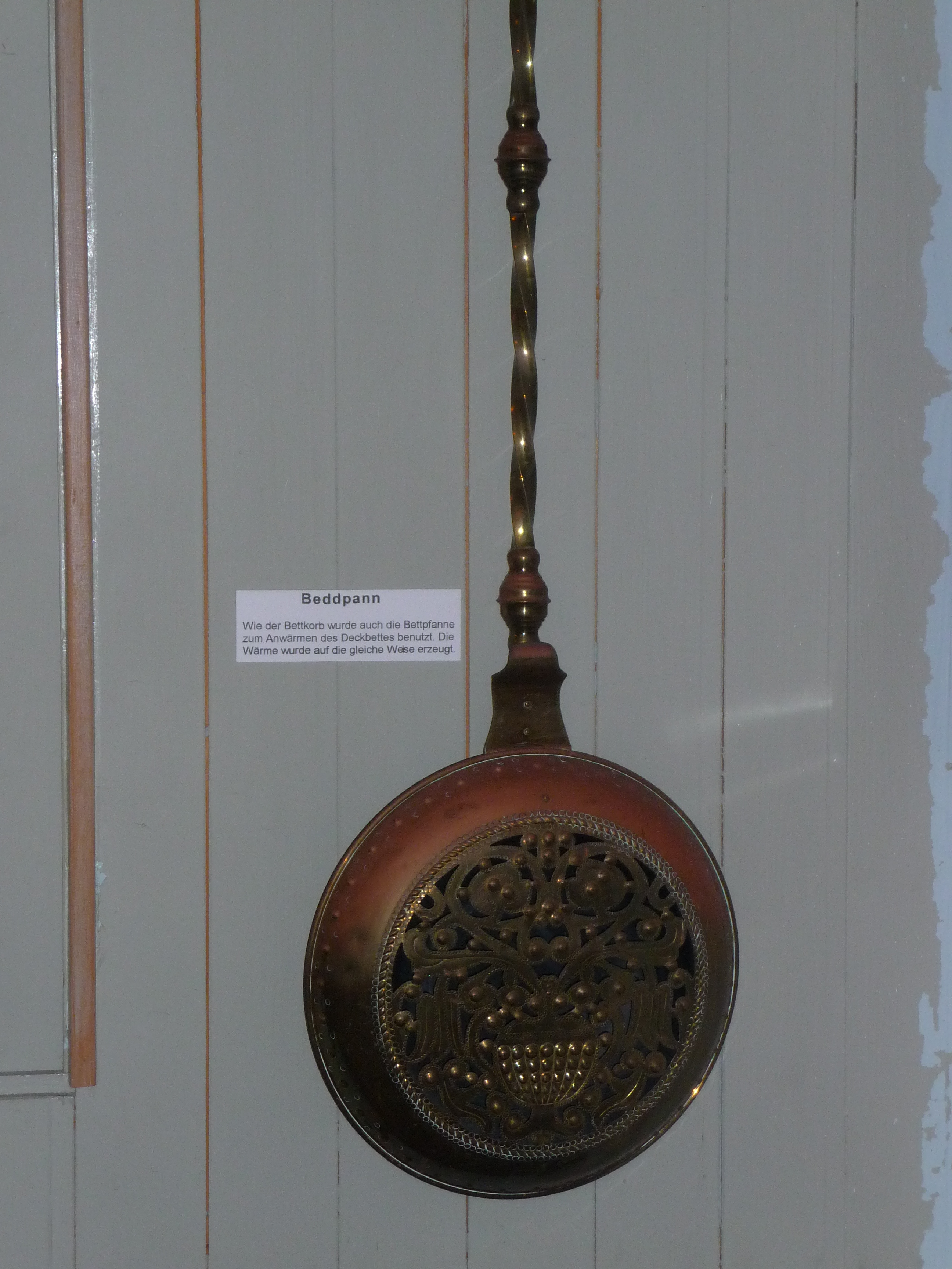 Bed pan for warming the bed cover, photographed at the Museum of the East Frisian North Sea coast island of Juist (Lower Saxony, Germany